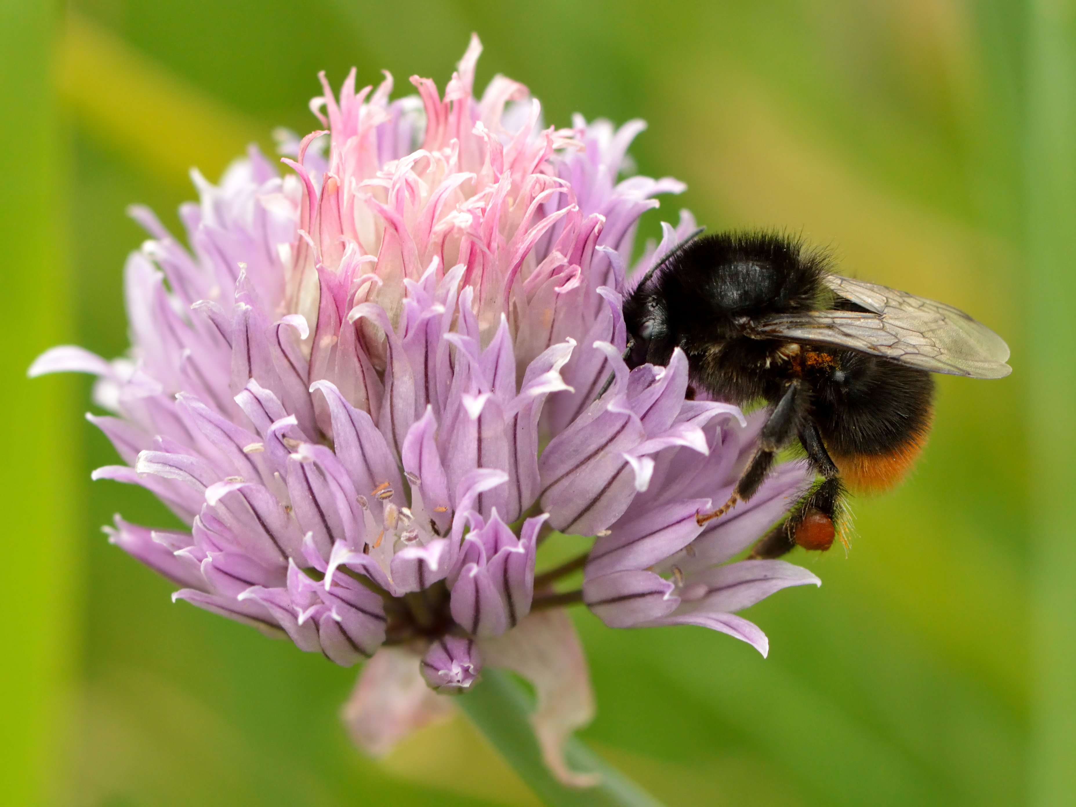 Red-tailed bumblebee (Bombus lapidarius) on the chives (Allium schoenoprasum). Tootsi, southwestern Estonia.